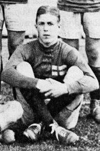 Swedish footballer Herman Myhrberg at the 1912 Summer Olympics in Stockholm